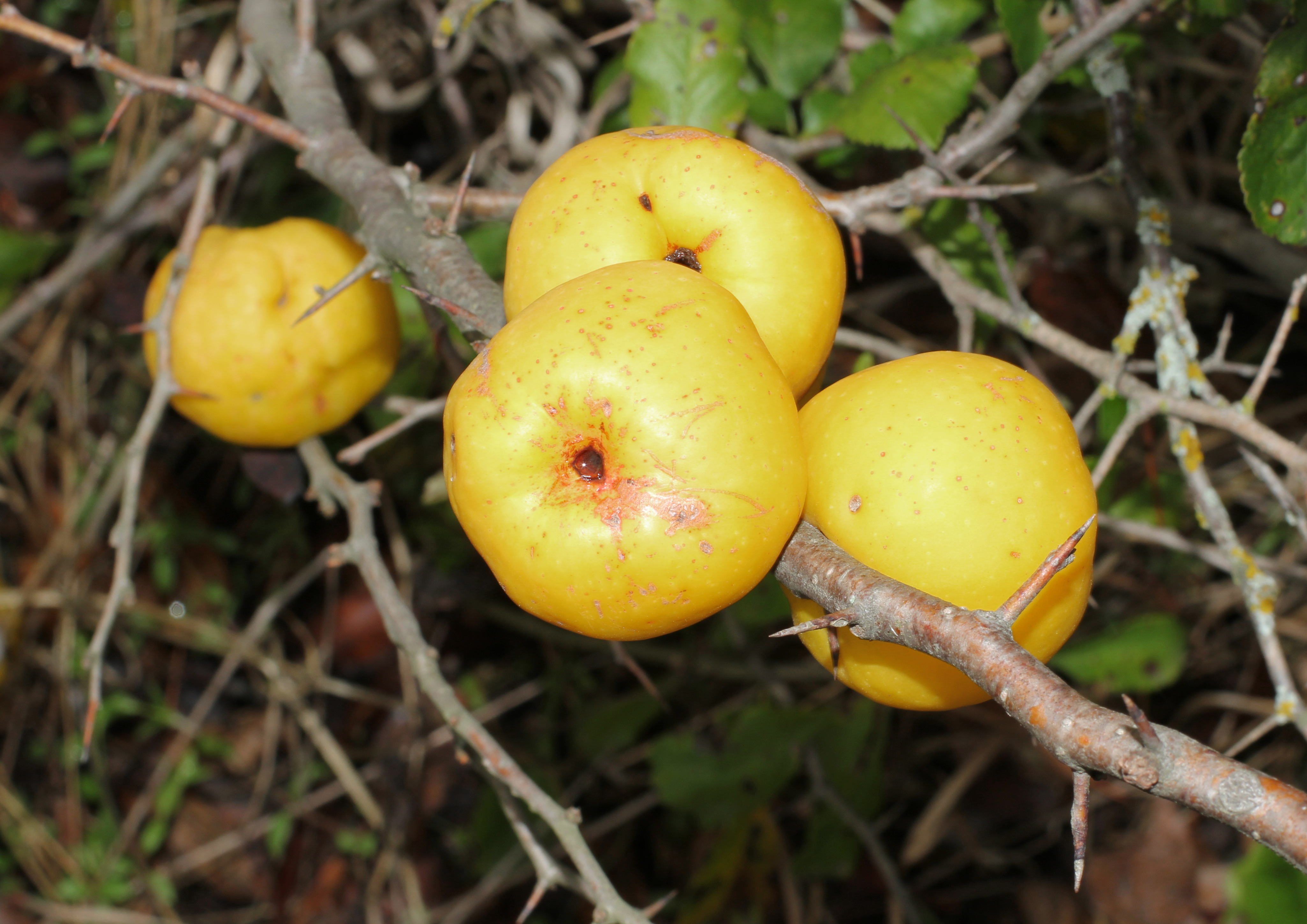 Japanese quince or Maule's quince fruit (Chaenomeles japonica). Ukraine, Vinnytsia oblast